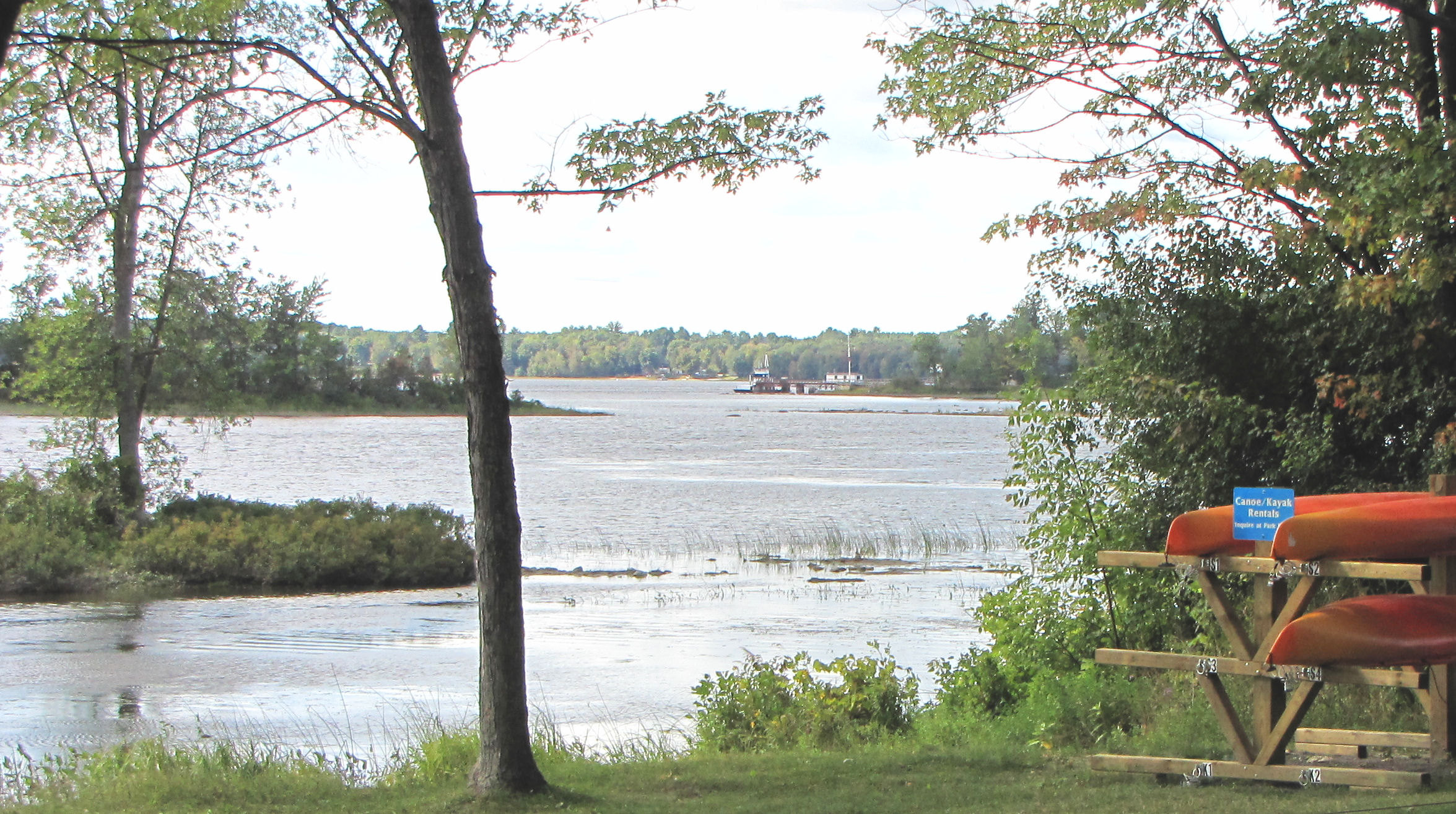 Fitzroy Harbour entrance from playground at Fitzroy Provincial Park, Ontario